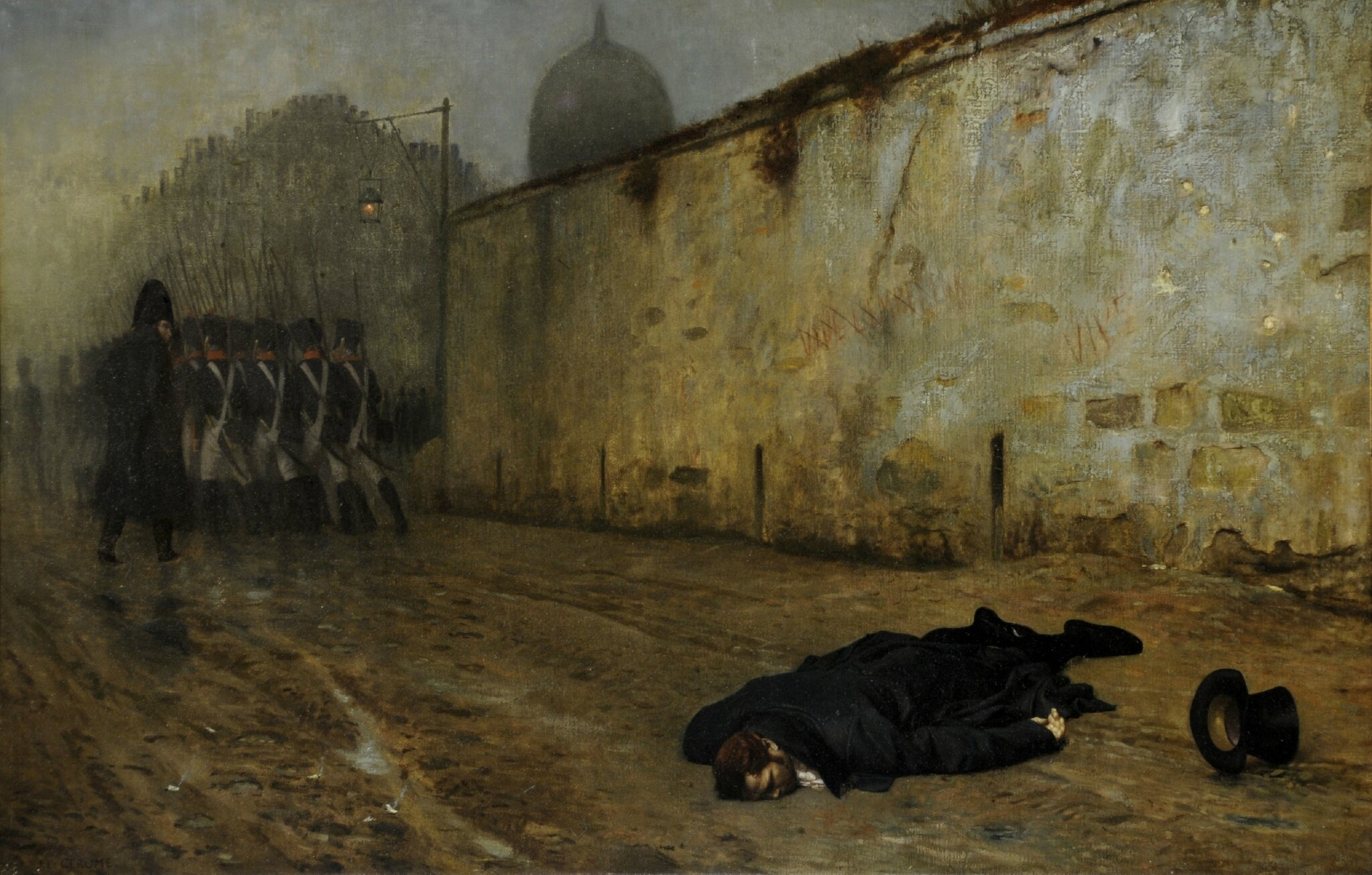 Jean-Léon Gérôme, The Execution of Marshall Ney, 1868, Graves Art Gallery, Sheffield.